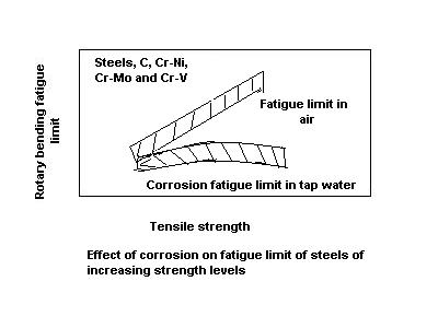 The effect of corrosive environments on fatigue limit of metals